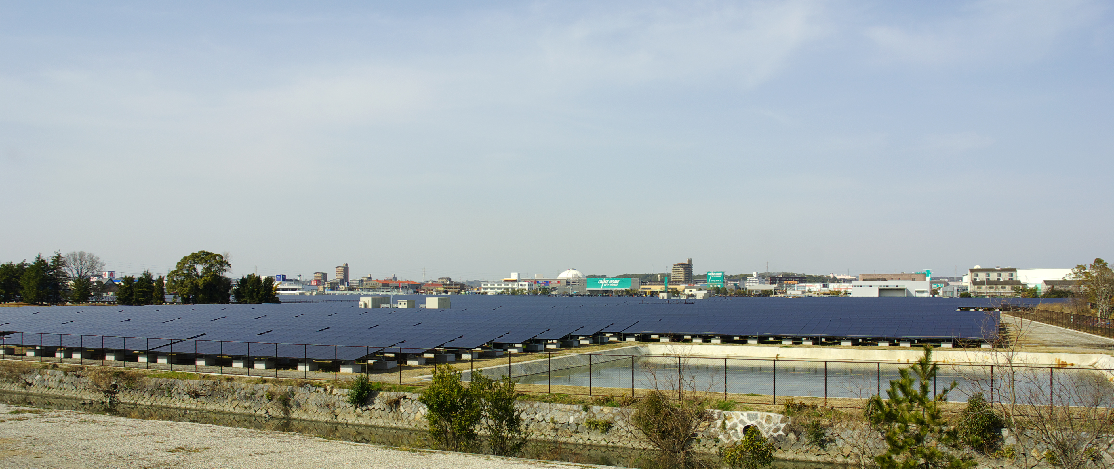 Handa solar power plant Handa City, Aichi pref., Japan